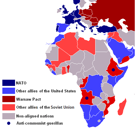 Part of the Wikipedia world map: Cold War 1980